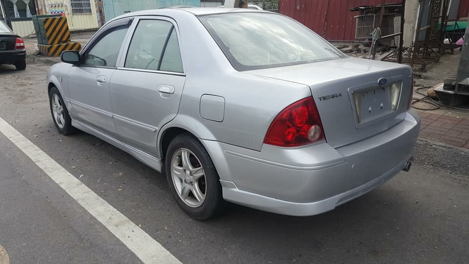 Ford Tierra Aero rear